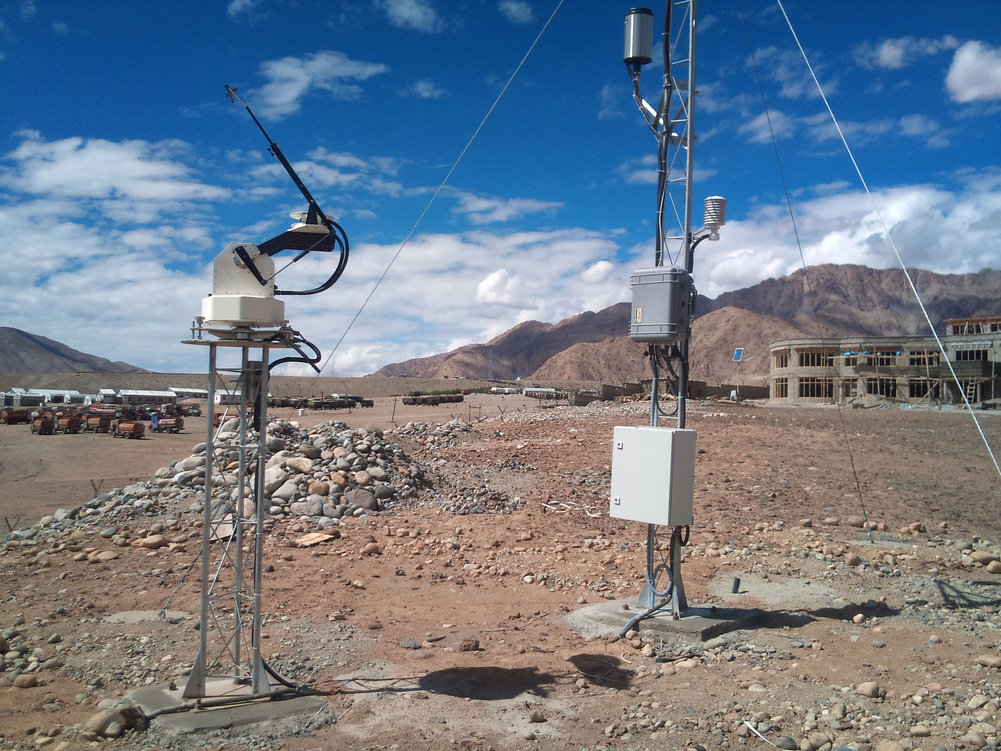 Weather Monitoring Station at Energy Park Leh